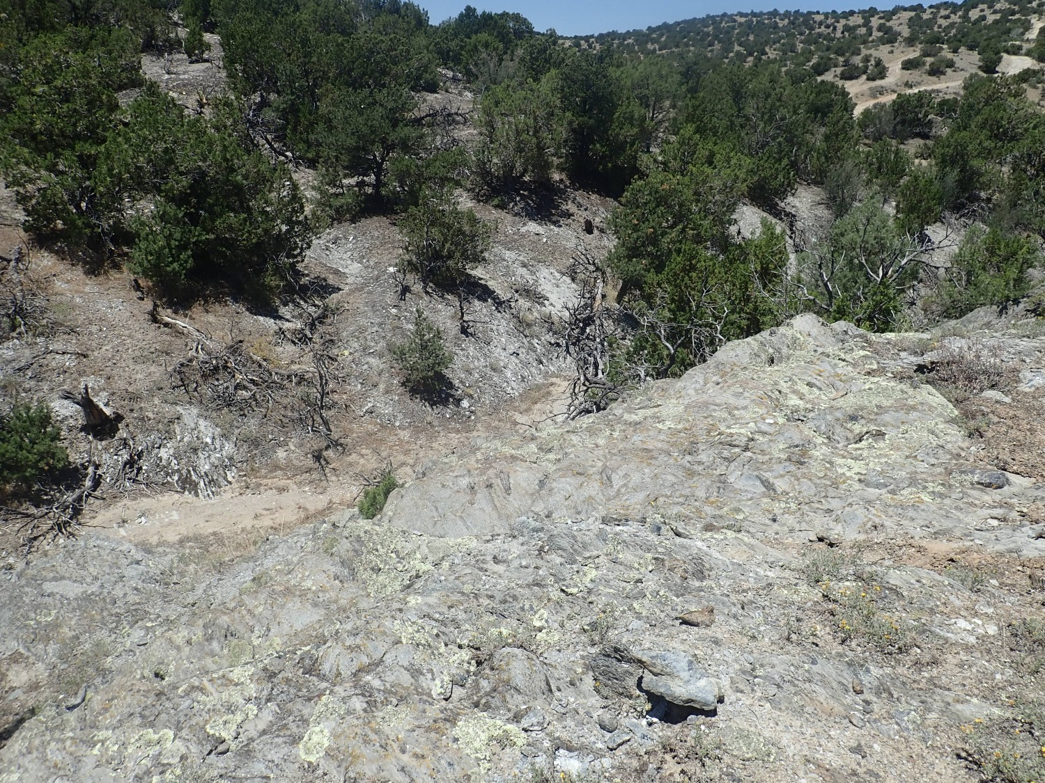 This image shows schist beds of the lower Vadito Group, which is not divided into formations in the Picuris Mountains, New Mexico, USA. The outcrops here are rich in large (several cm) porphyroblasts of andalusite, a polymorph of aluminum silicate. The Vadito Group contains all three polymorphs at different locations, showing that metamorphism took place close to the triple point.